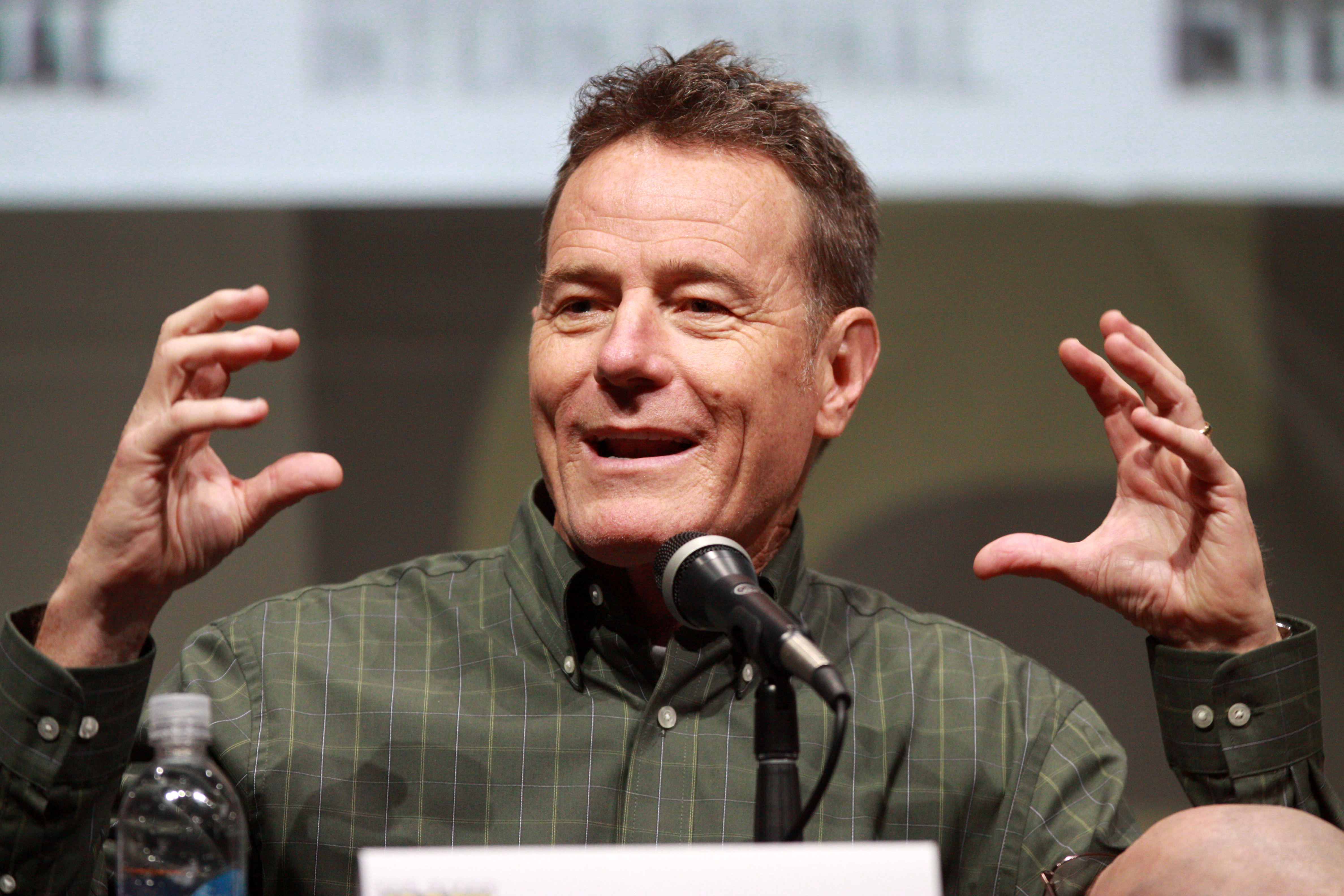 Bryan Cranston speaking at the 2013 San Diego Comic Con International, for "Breaking Bad", at the San Diego Convention Center in San Diego, California.